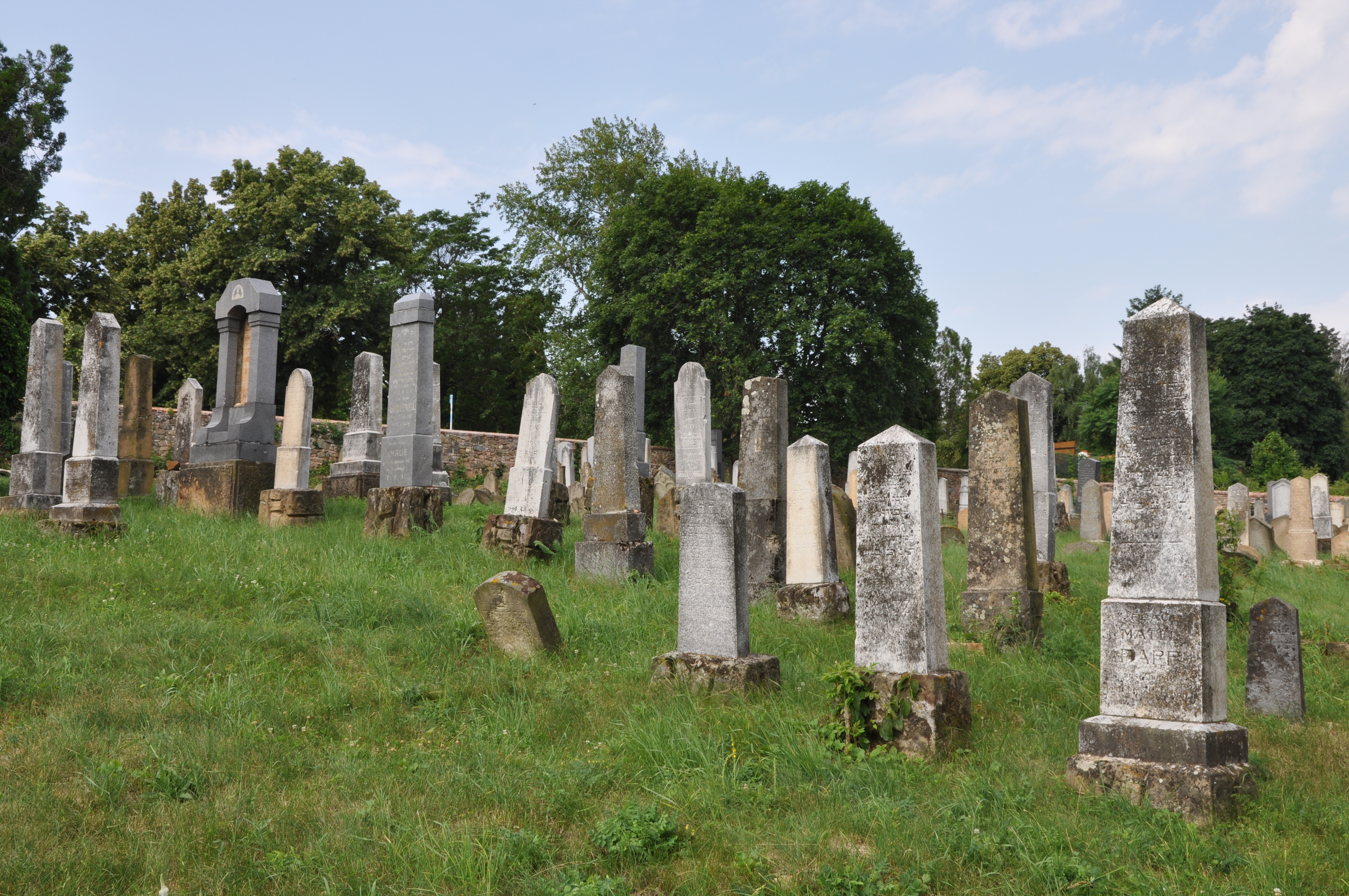 Dolní Kounice, Brno-Country District, Czech Republic. Jewish cemetery.